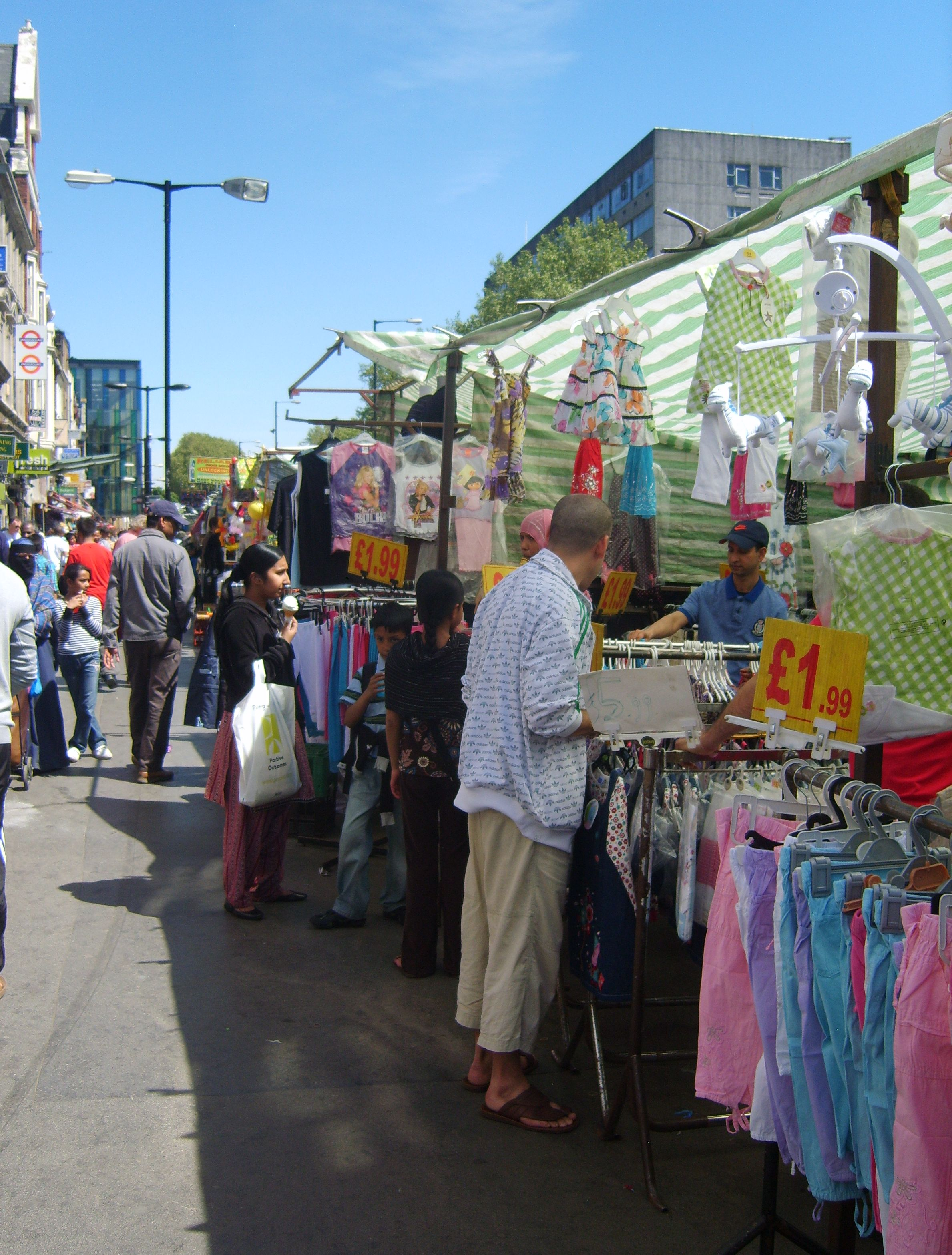 Whitechapel Market on Whitechapel Road, London, E1, near the entrance to Whitechapel tube station.